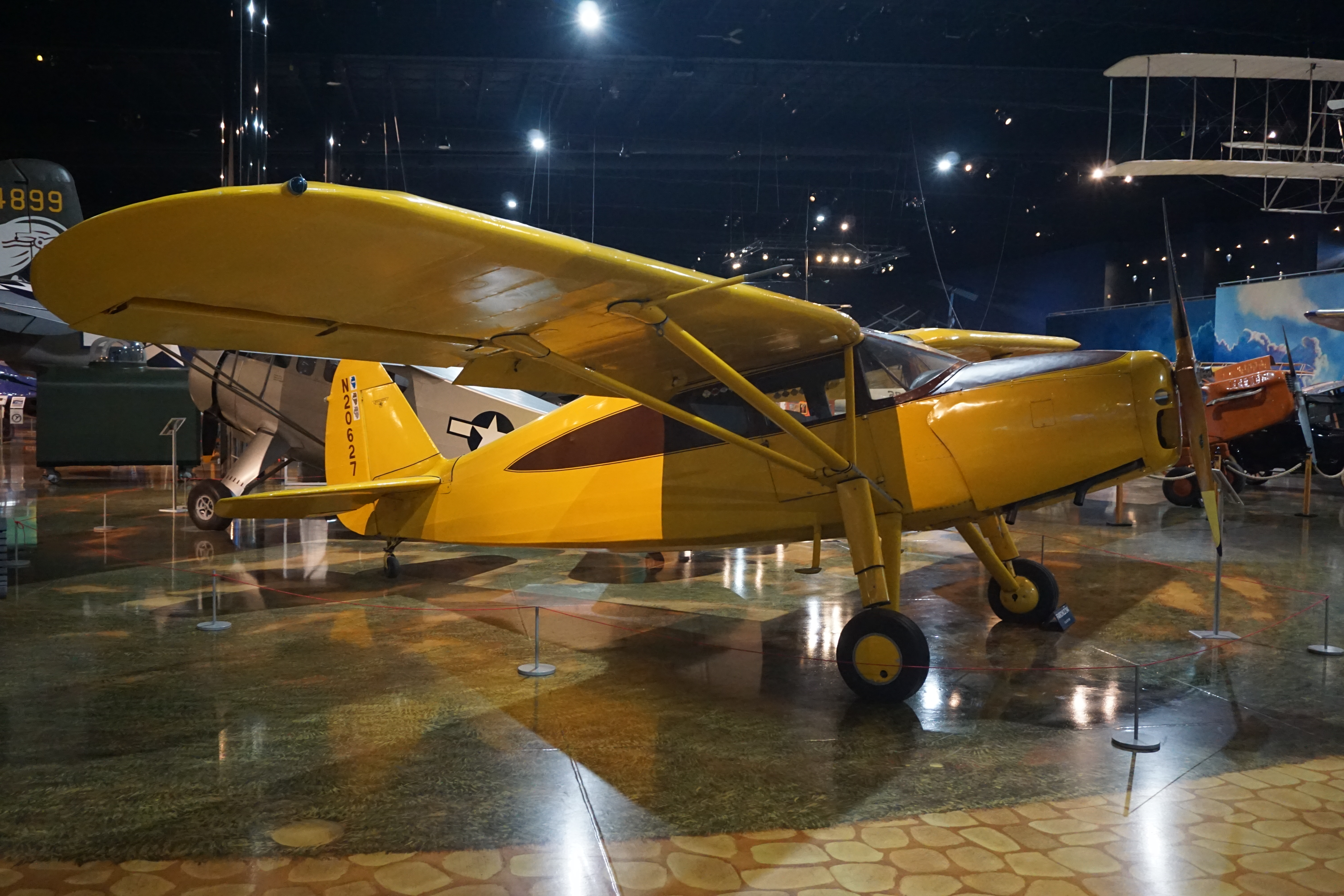 A Fairchild 24 K Forwarder on display at the Air Zoo at Kalamazoo/Battle Creek International Airport in Portage, Michigan (United States).